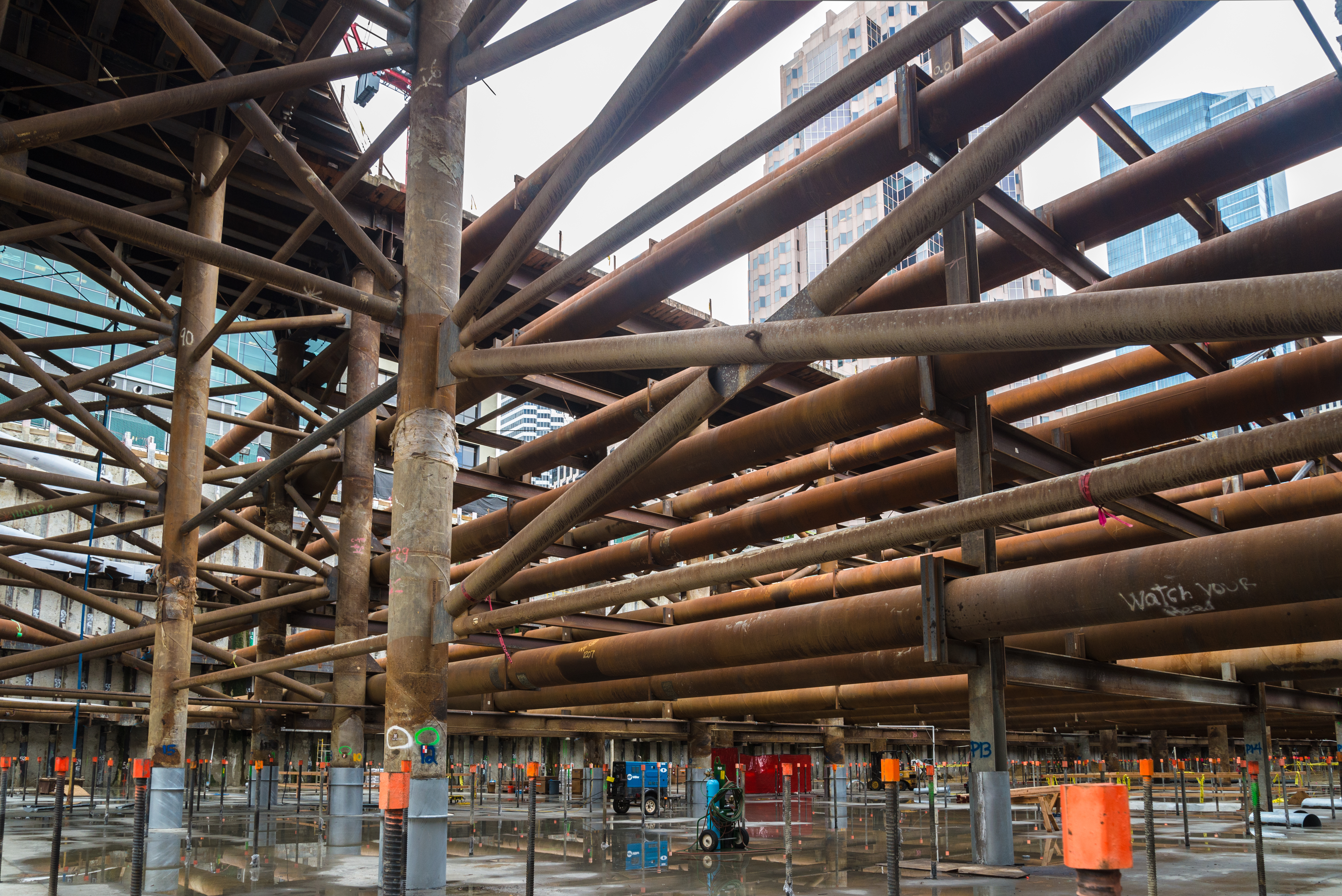 View of the under-construction Transbay Transit Center from below